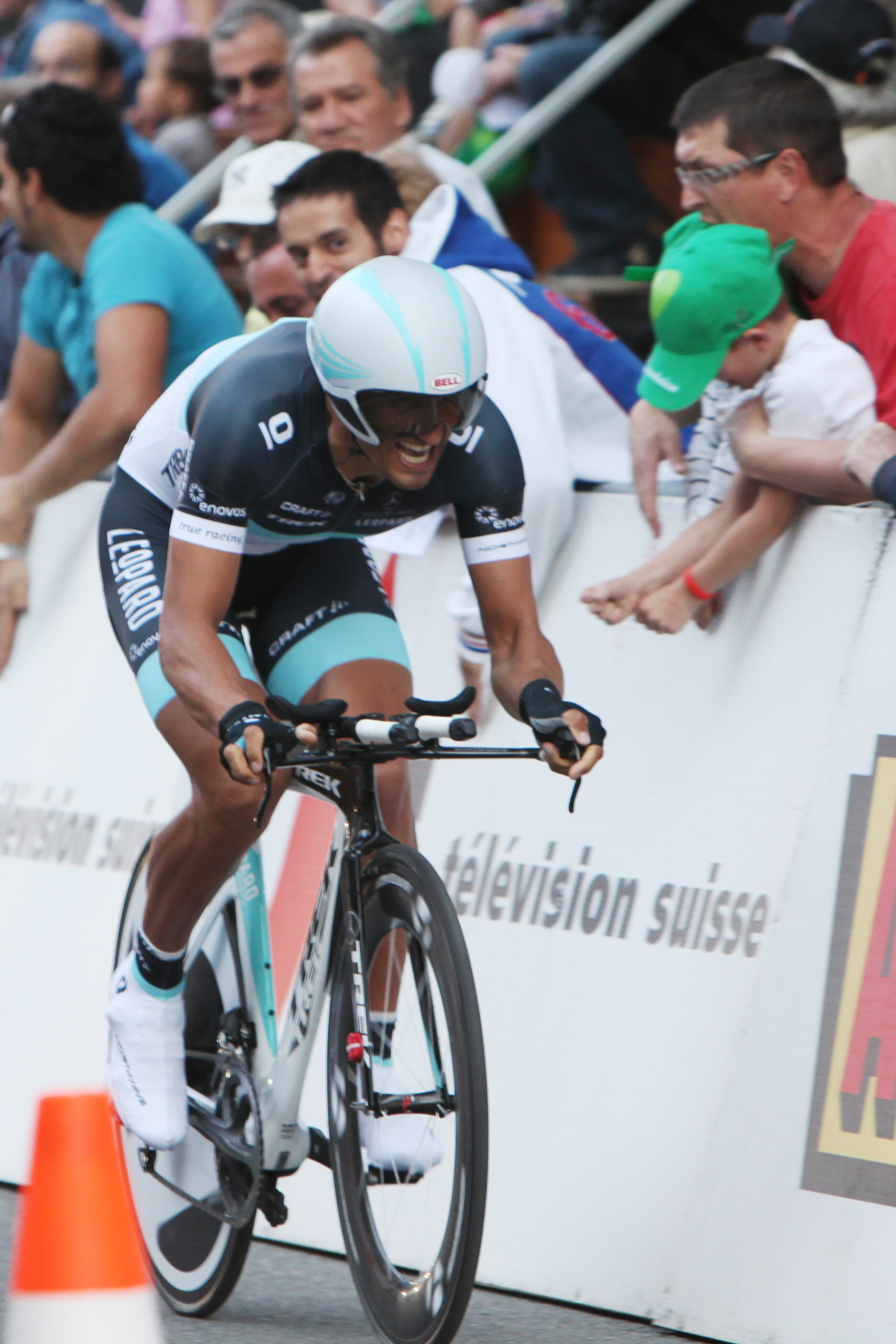 Daniele Bennati at the prologue of the Tour de Romandie 2011